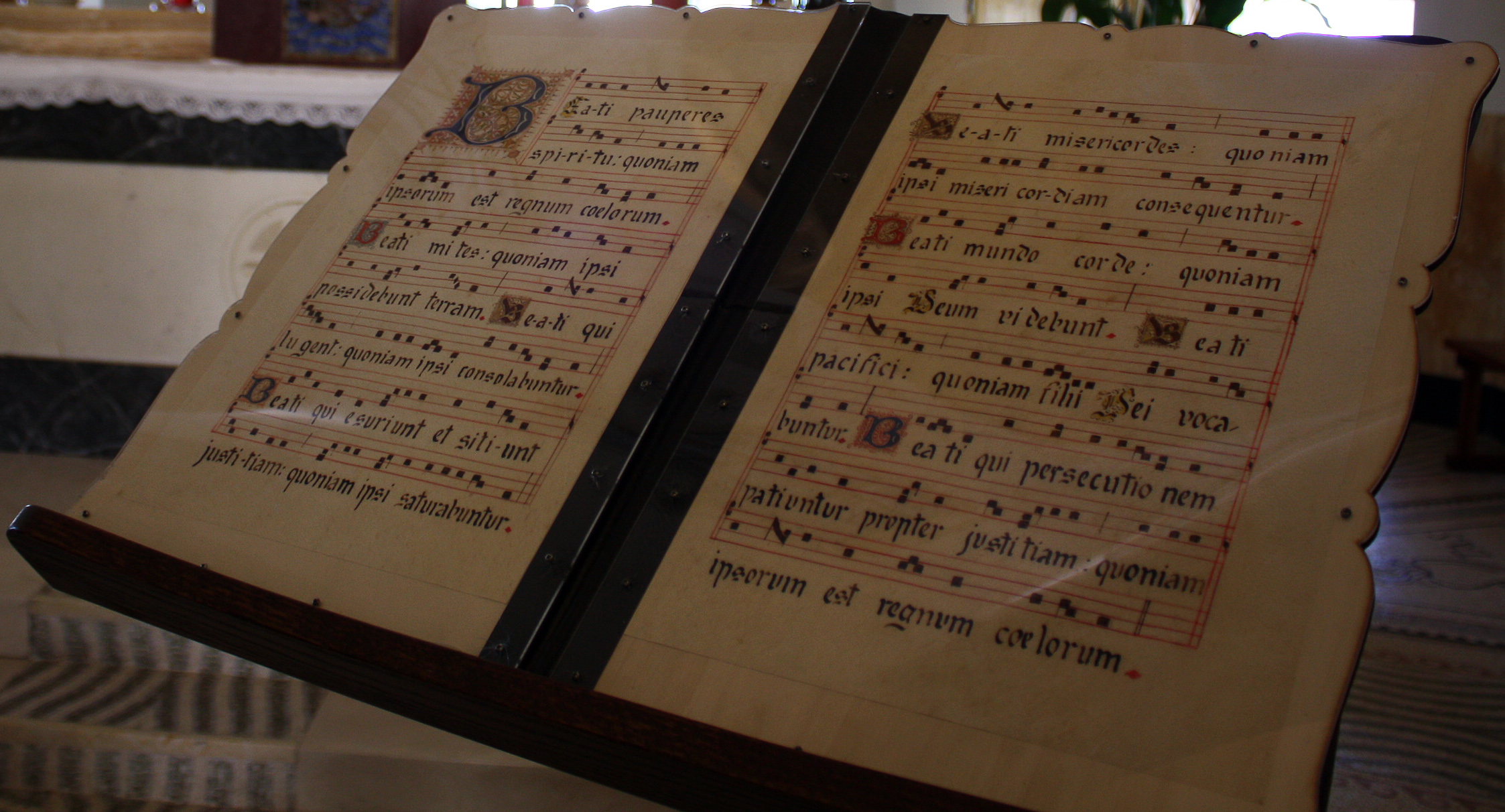 Plaque of the Beatitudes at Church of the Beatitudes